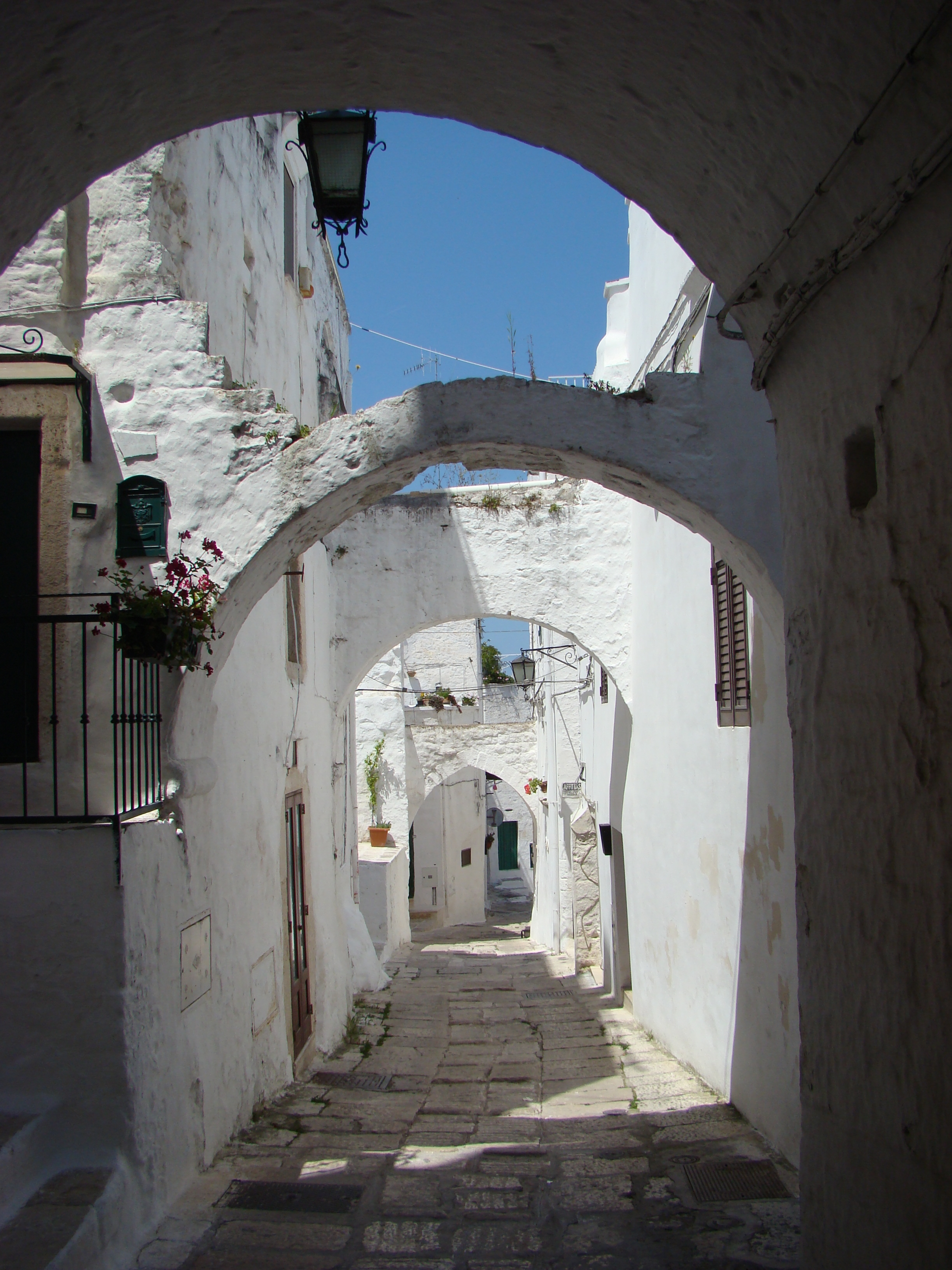 Ostuni - Alley